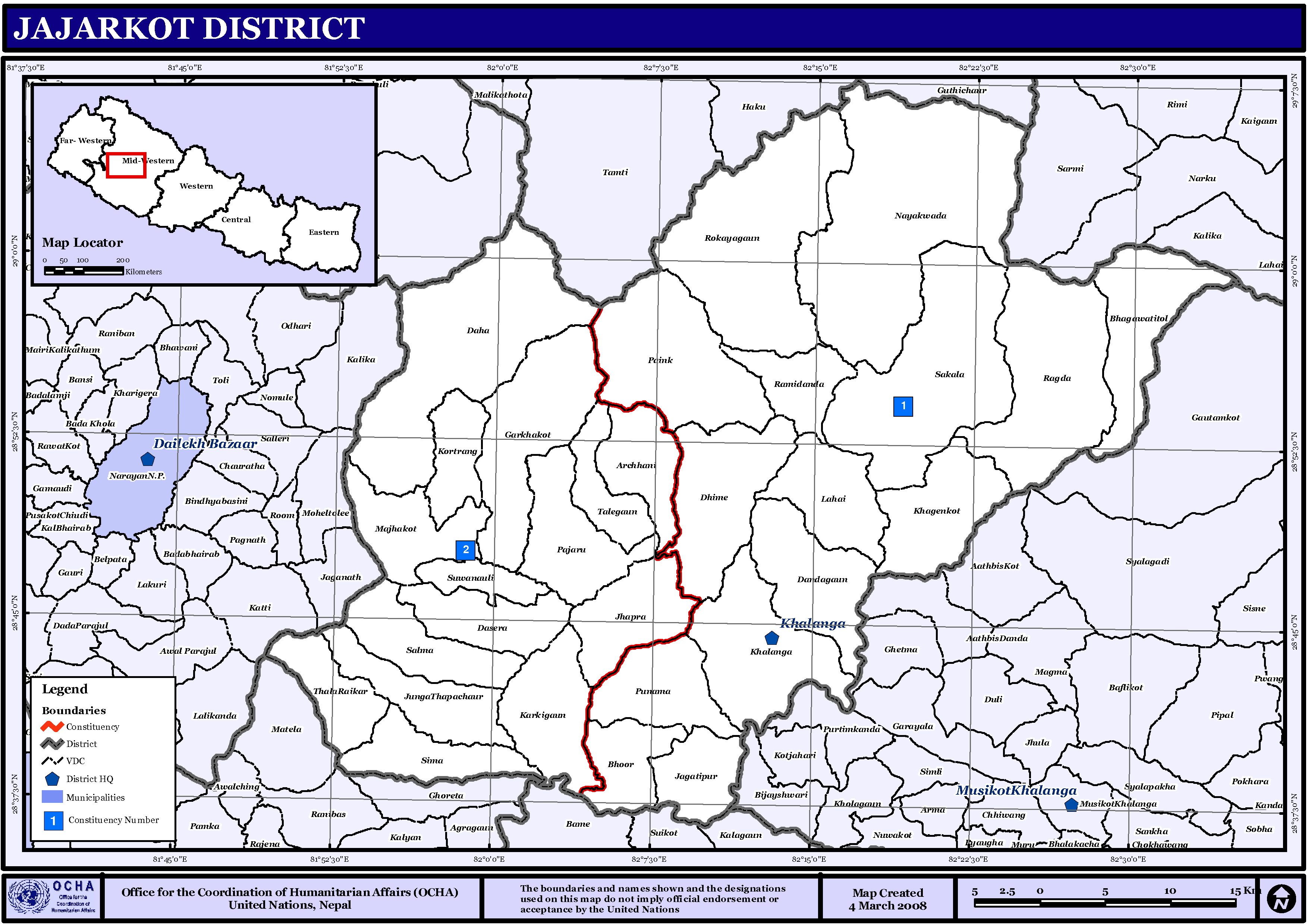 Map displaying Village Development Committees in Jajarkot District, Nepal